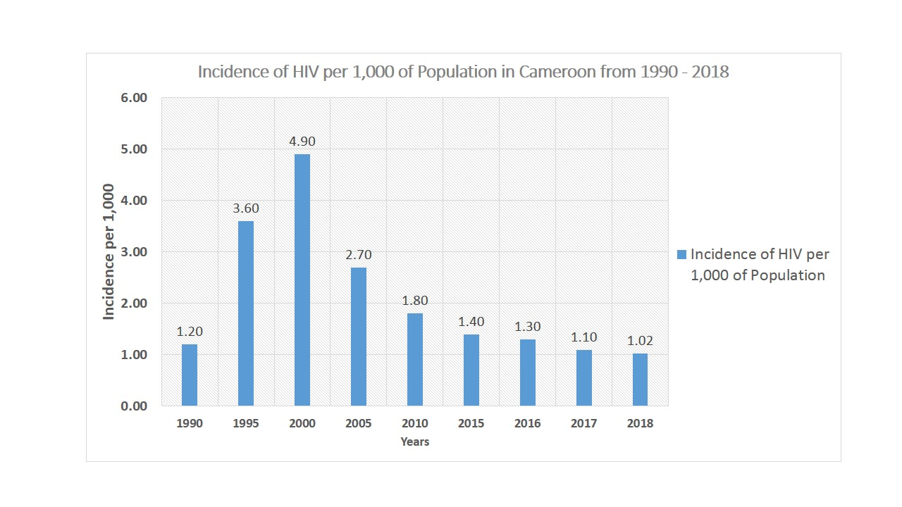 A graph showing a decline in the incidence of HIV from 2000 o 2018.